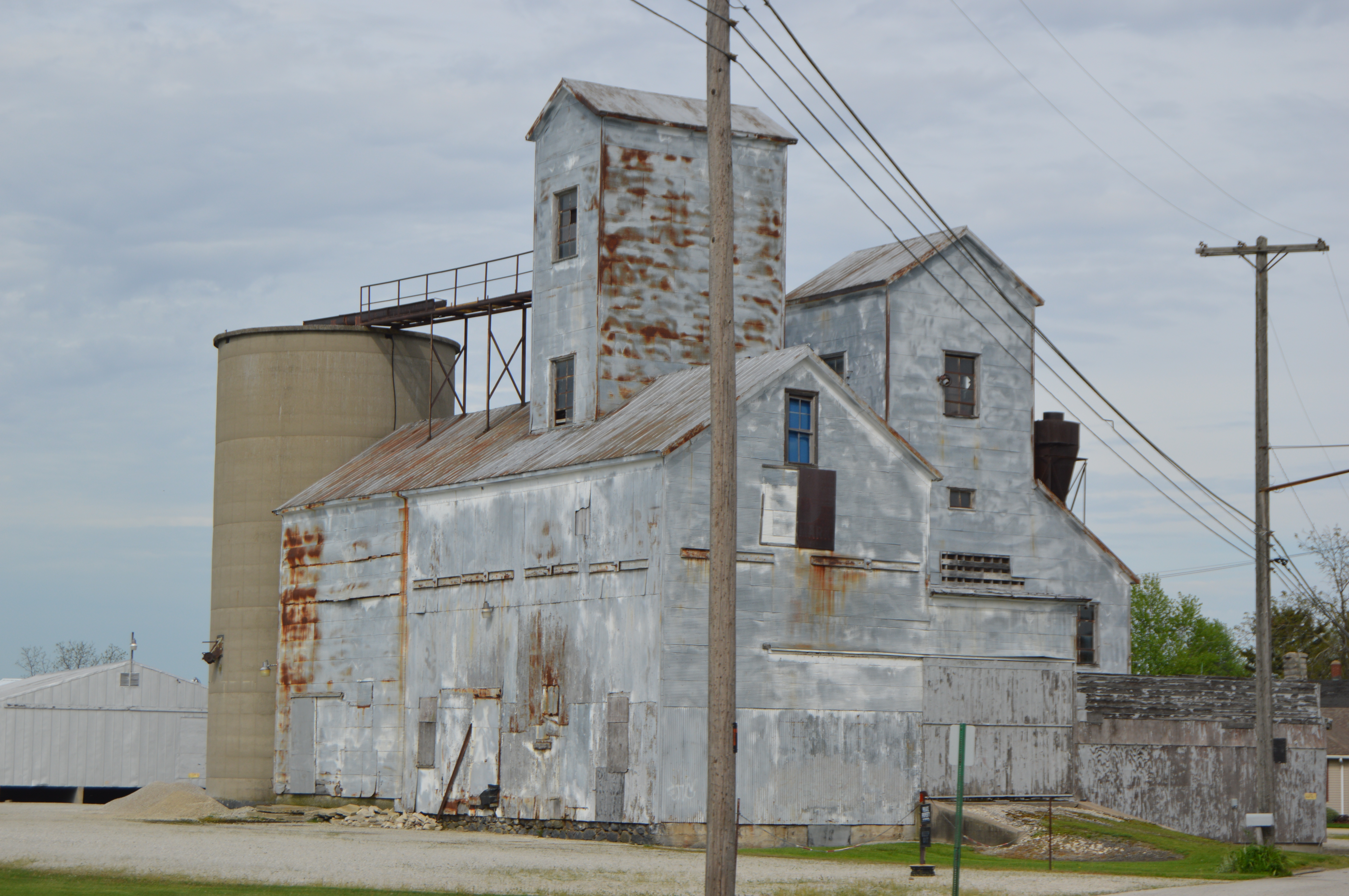 View from the southwest of the Burgoon elevator, located on Main Street east of the rail line in Burgoon, Ohio, United States.